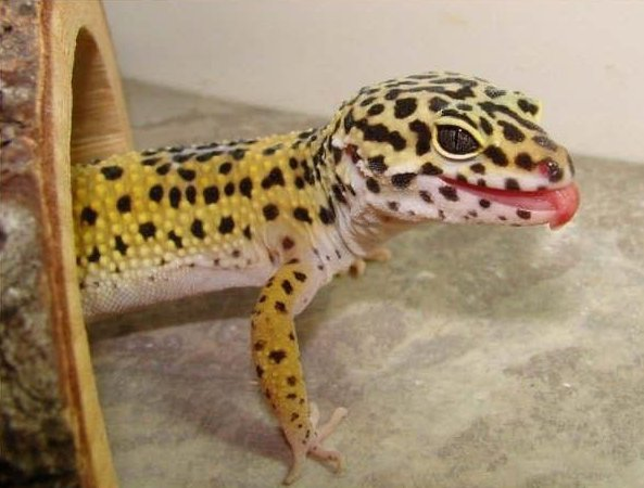 Leopard gecko example